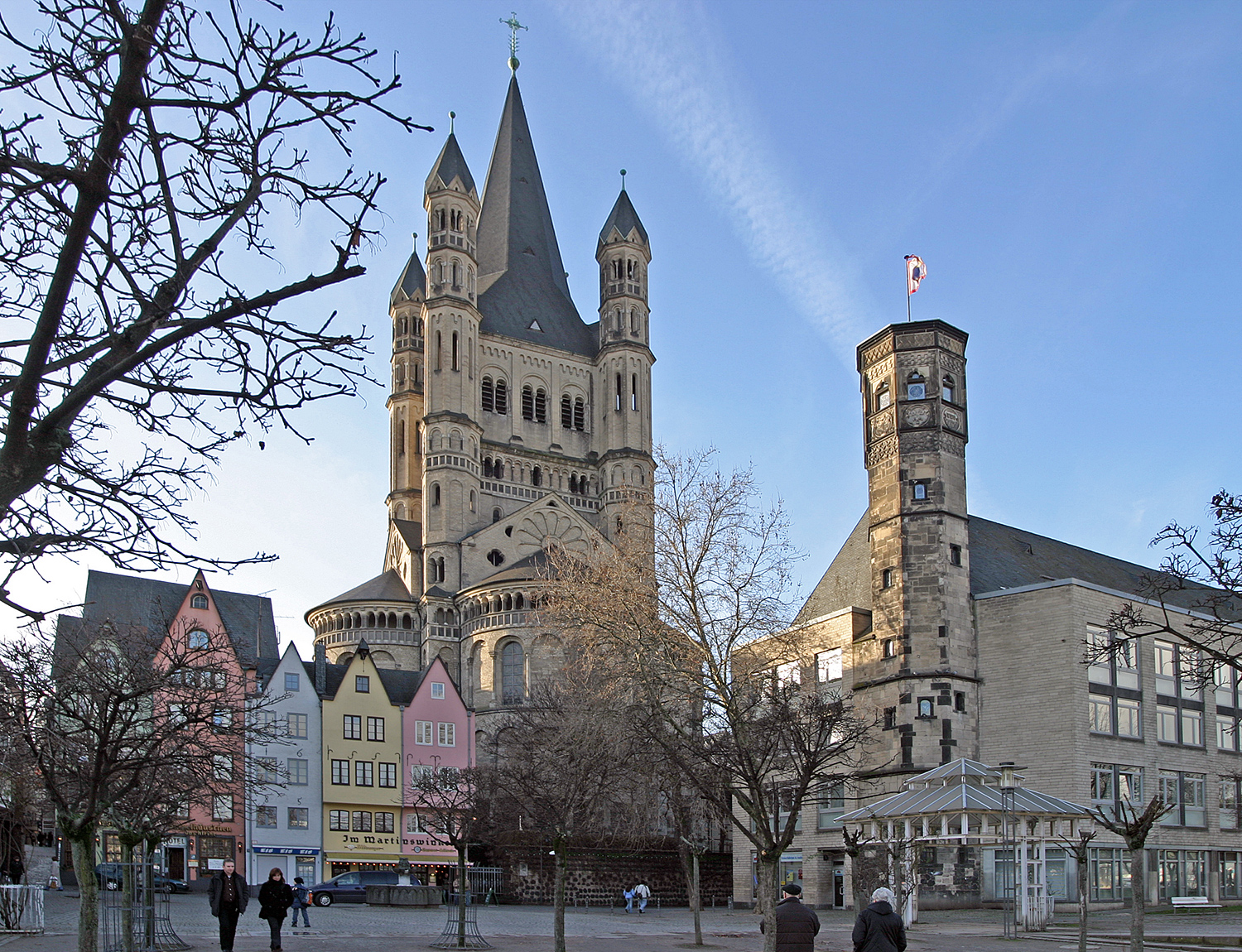 Fish market, church Groß St. Martin, Cologne, Germany.